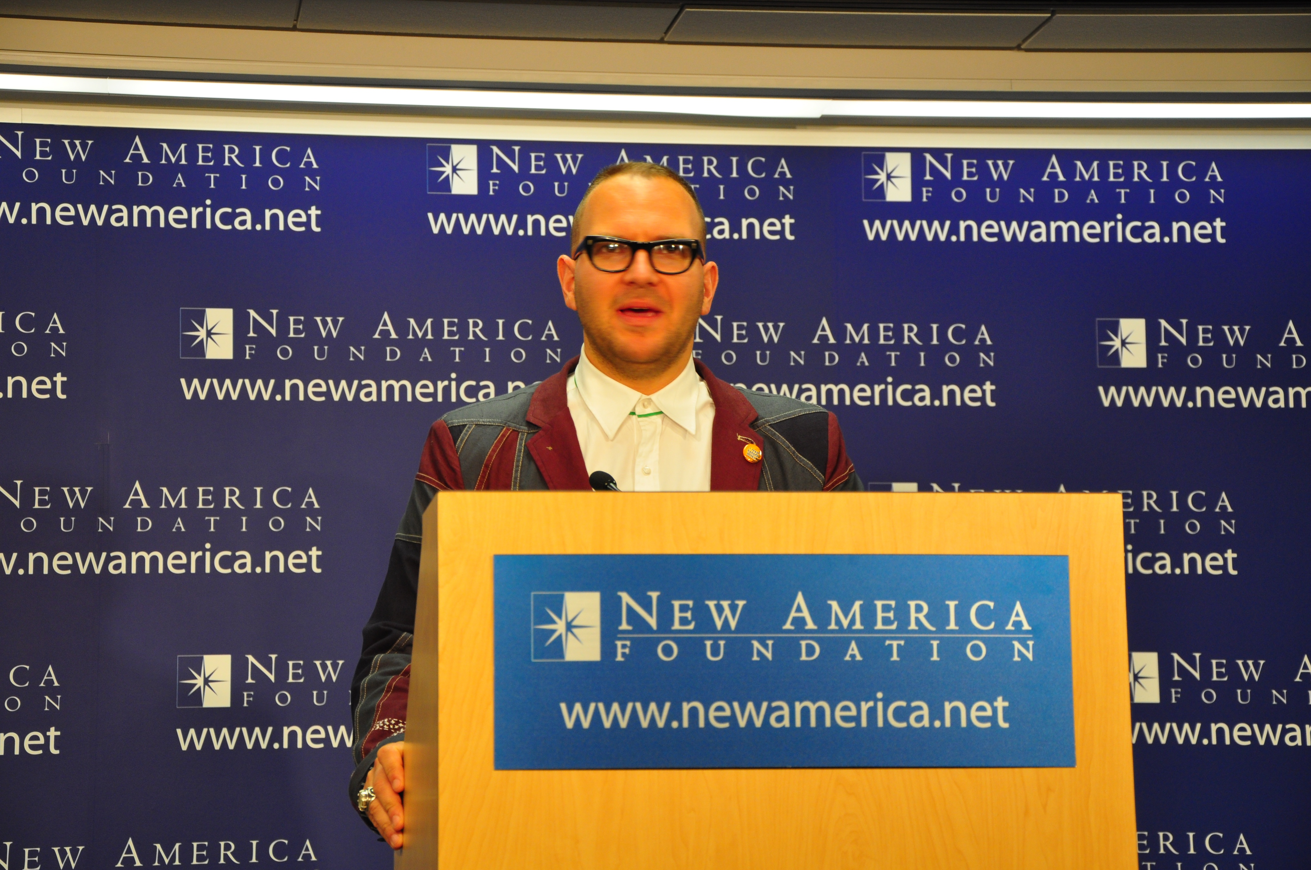 Cory Doctorow speaking at DC CopyNight, New America Foundation